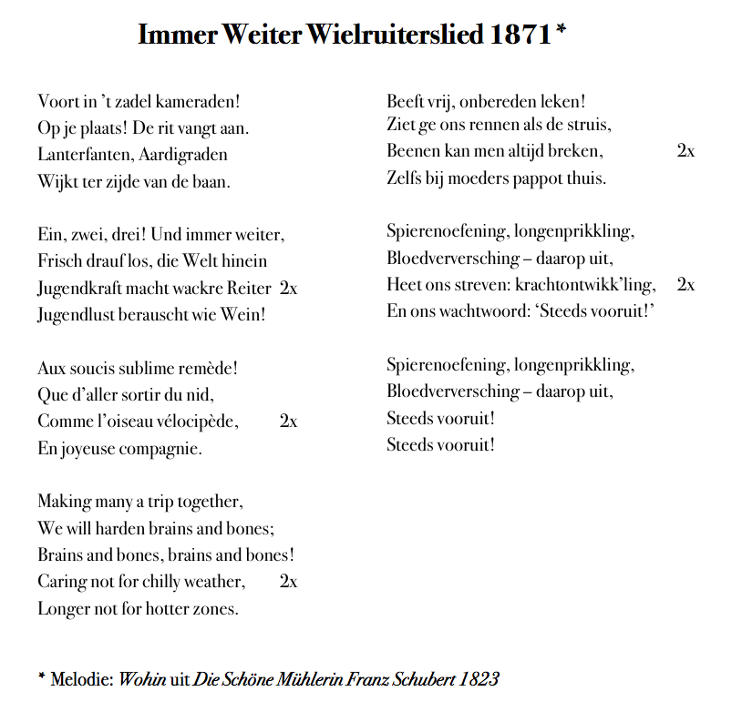 The four-language Immer Weiter 'Wheel Riders' song from 1871